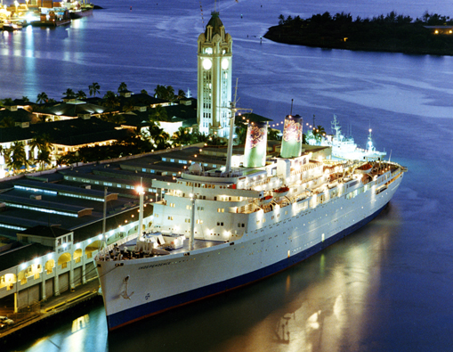 SS Independence at Aloha Tower, Honolulu, Hawaii 2001